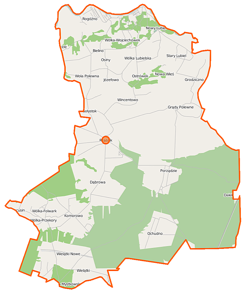 Map of Gmina Rząśnik, Poland This map of Rząśnik (gmina) was created from OpenStreetMap project data, collected by the community. This map may be incomplete, and may contain errors. Don't rely solely on it for navigation. Border coordinates52.793221.2678←↕→21.503052.6251